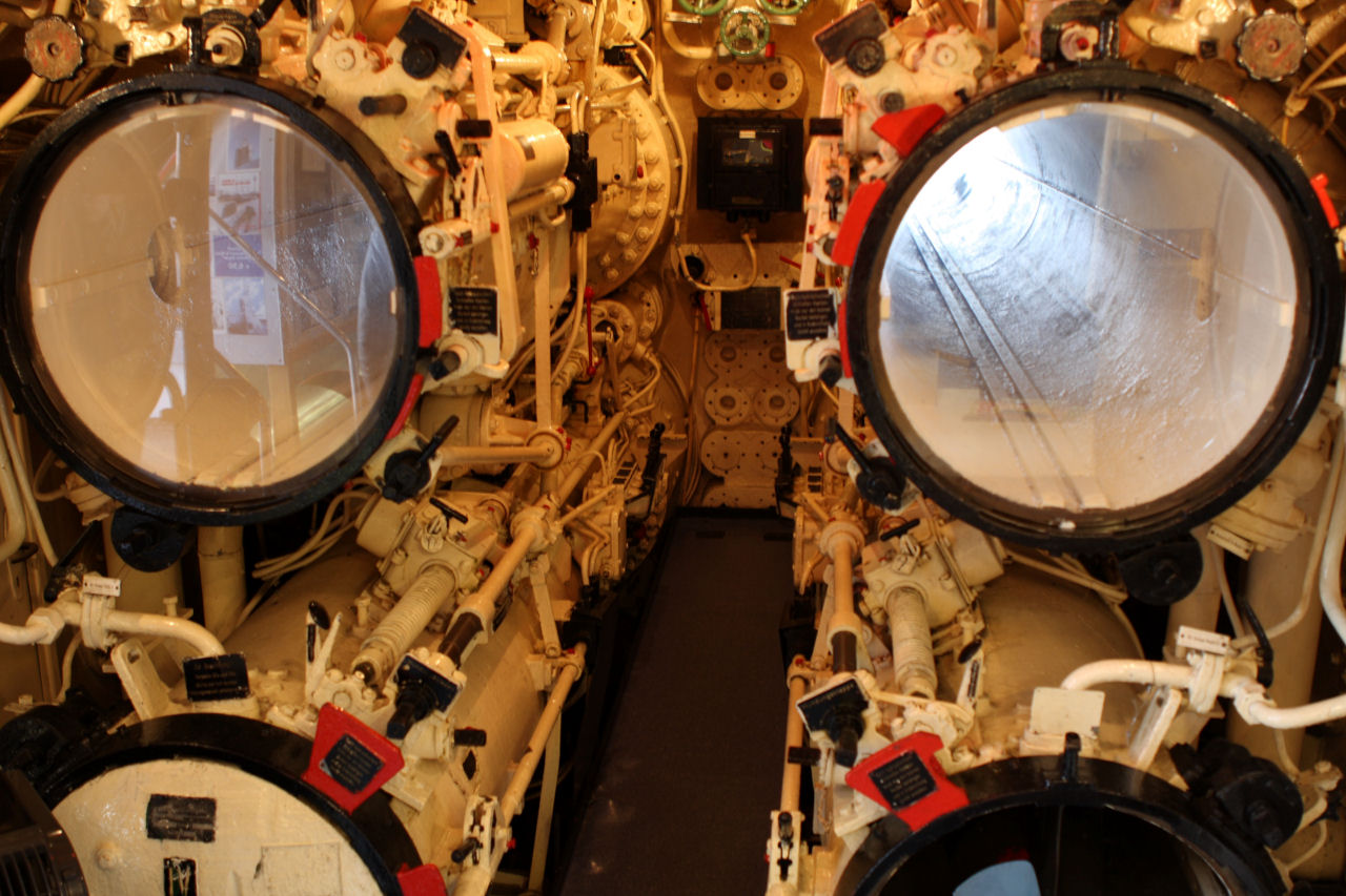 The four bow torpedo tubes of submarine Wilhelm Bauer (ex U 2540).